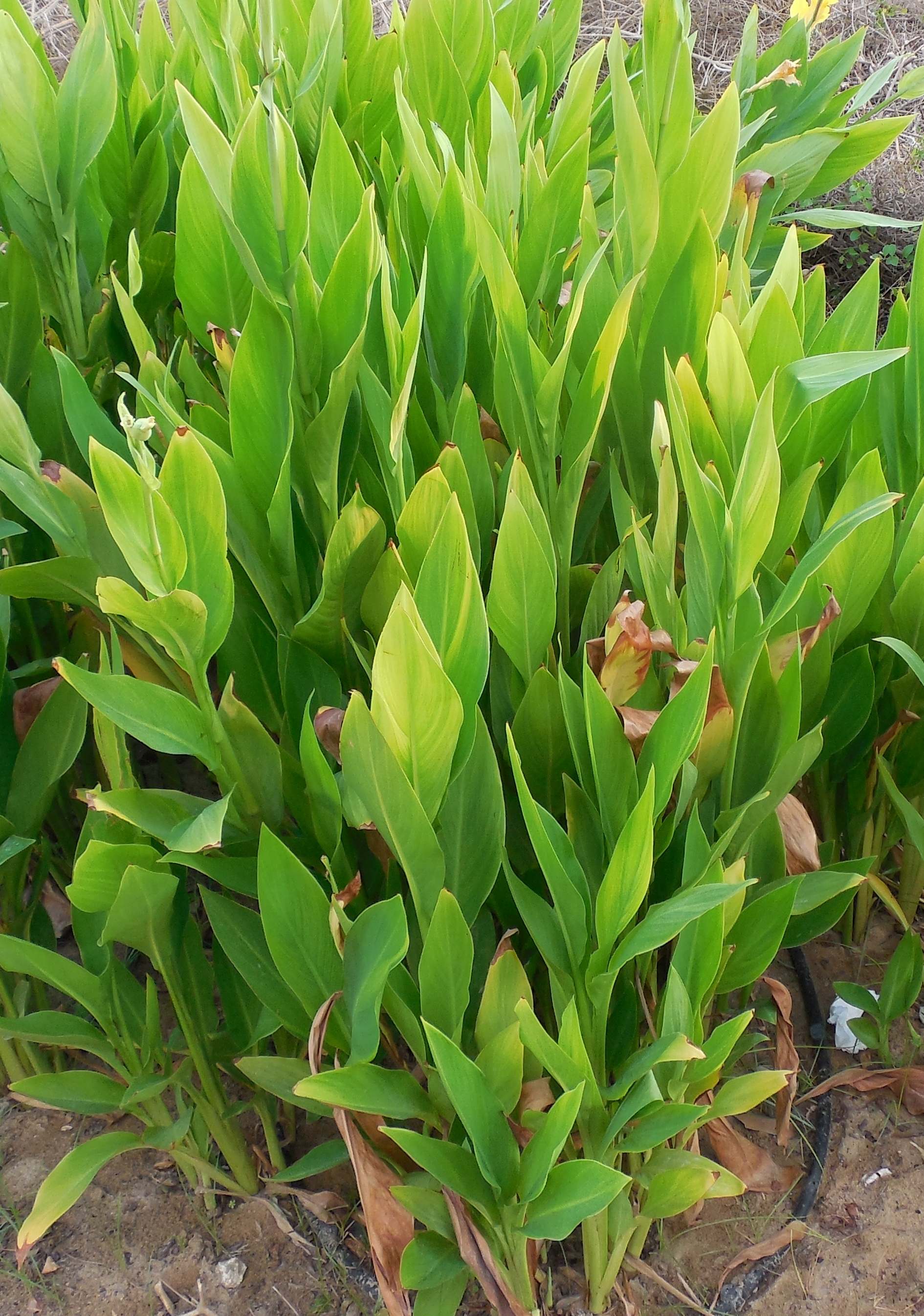 Turmeric plants at the Heritage Park in Abu Dhabi, UAE.